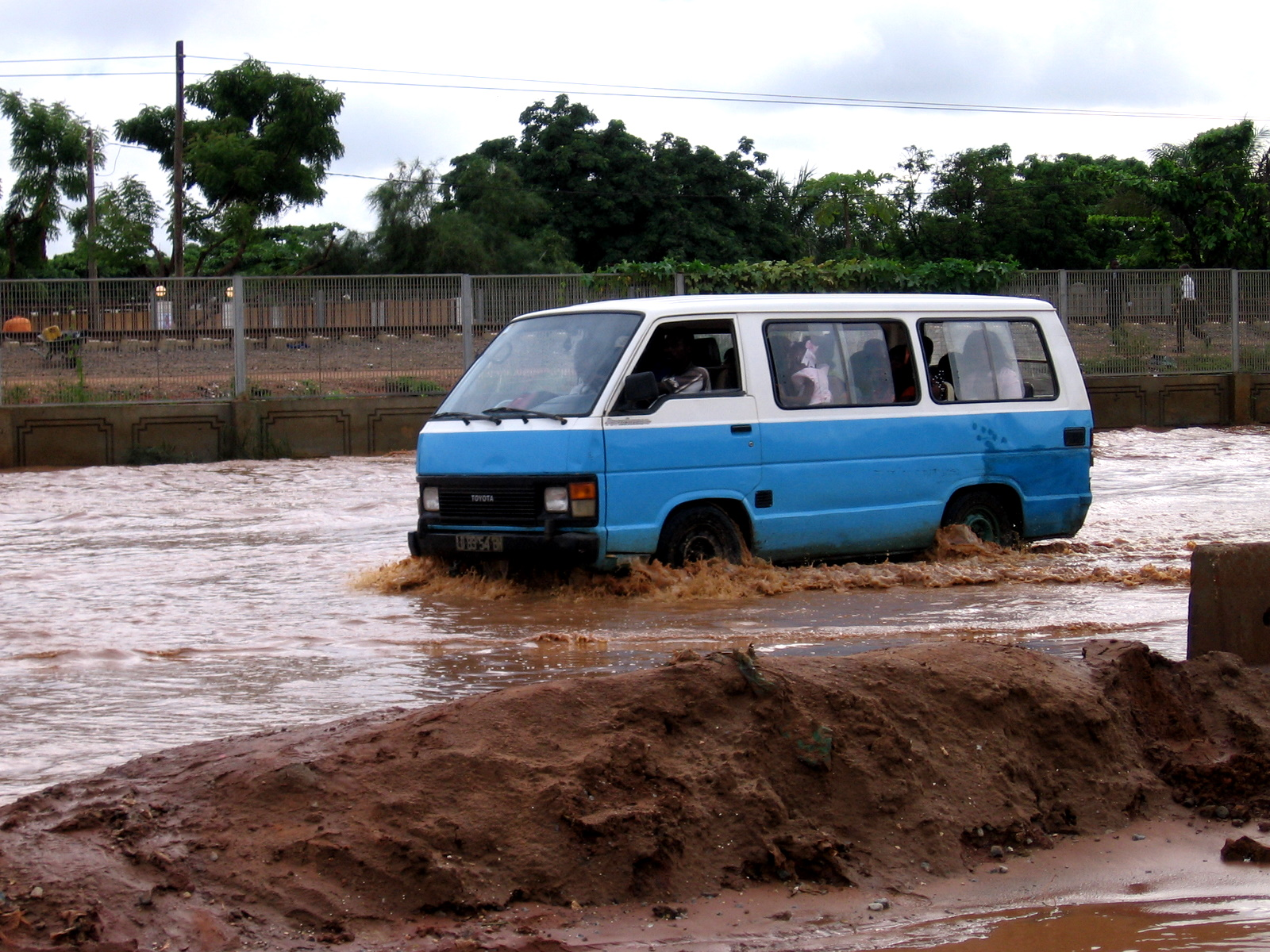 Candongueiro (Luanda taxi) after heavy rain falls, Luanda, Angola